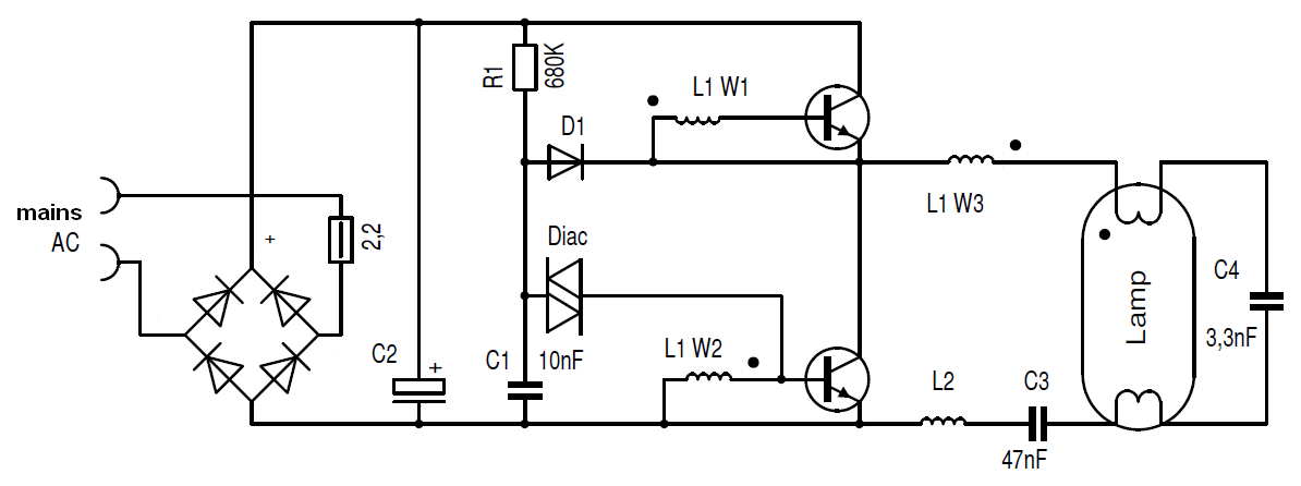 Current resonance inverter for a Fluorescent Lamp: simplified circuit